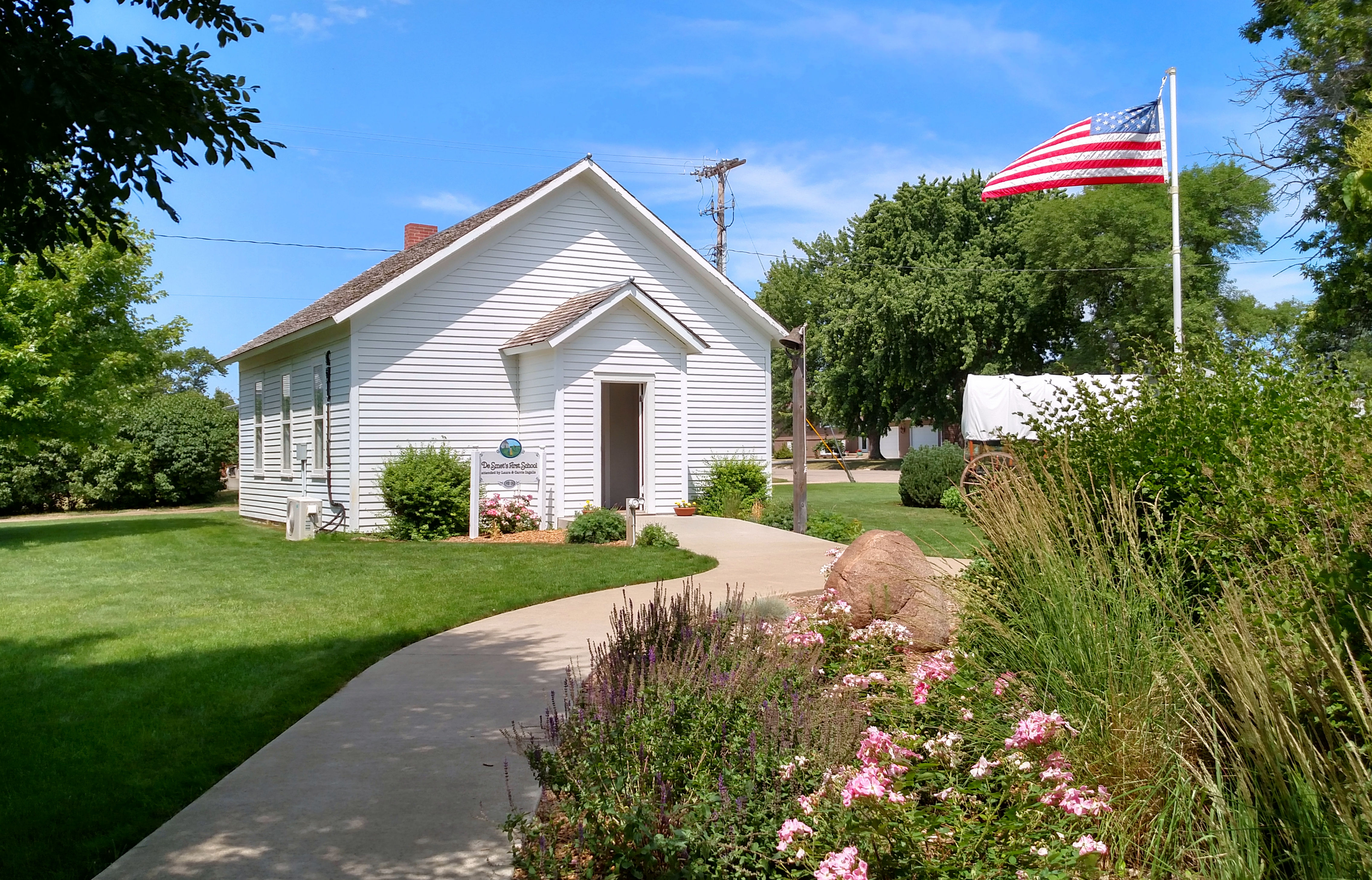 De Smet School, the first school built in De Smet, Dakota Territory and attended by Laura Ingalls Wilder and her younger sister, Carrie Ingalls (Swanzey). The school has been restored and relocated to the grounds of the Laura Ingalls Wilder Memorial Society museum and historic buildings.